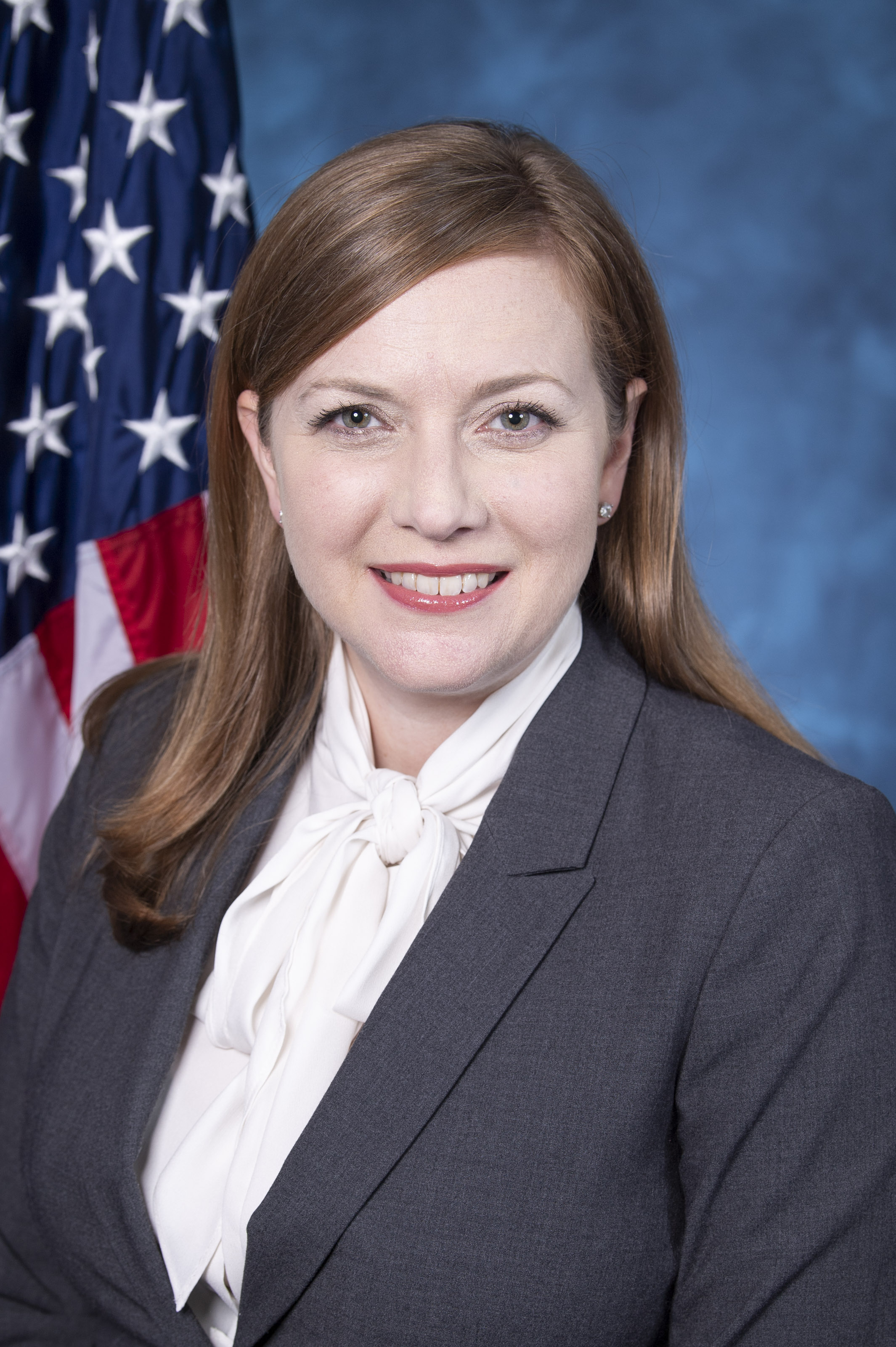 The official headshot of Rep. Lizzie Fletcher (D-TX)